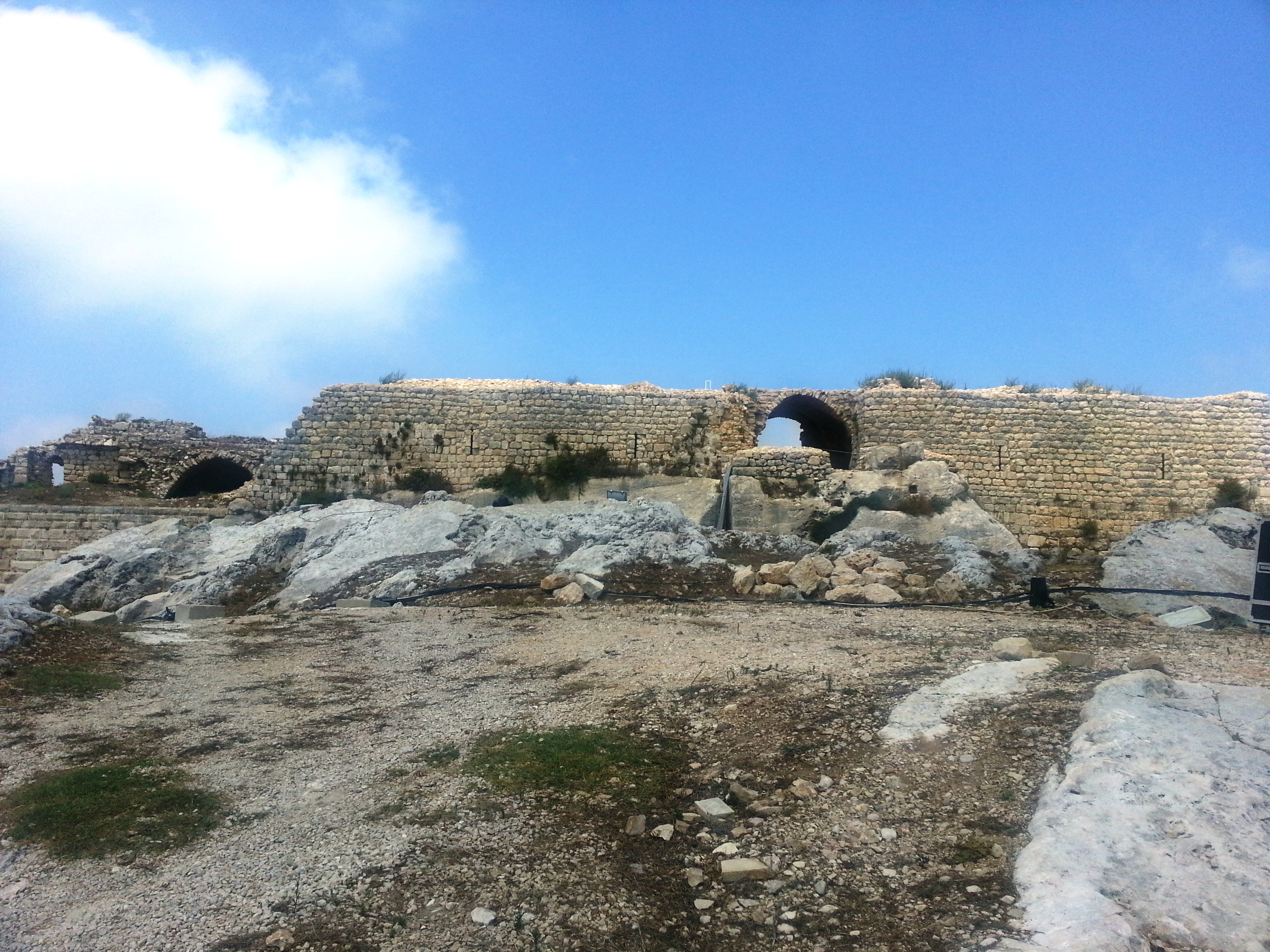 Castle I